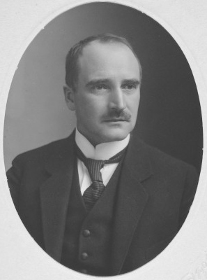 Photograph of the Finnish geodesist Ilmari Bonsdorff (1879–1950).